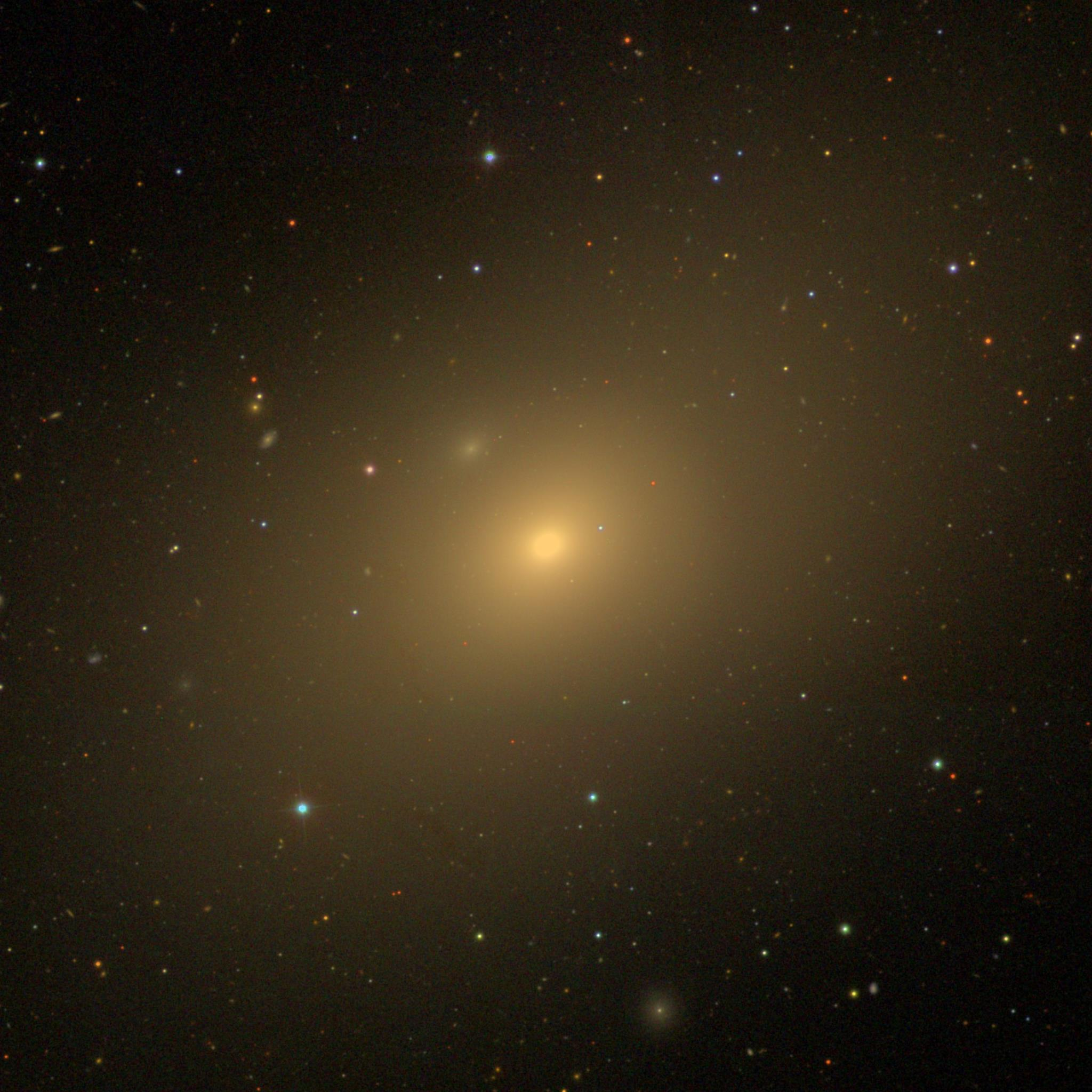 Angle of view: 12' x 12' (0.3515625" per pixel), north is up.